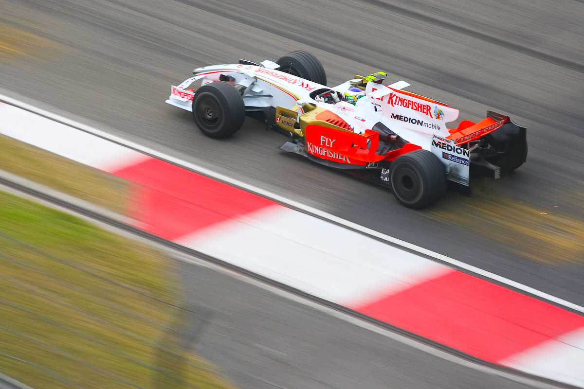 Giancarlo Fisichella driving for Force India at the 2008 Chinese Grand Prix.